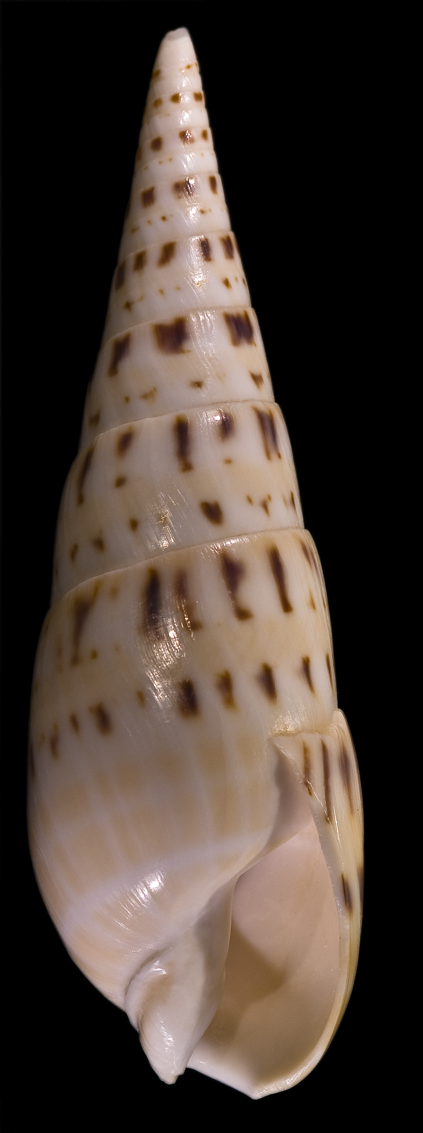 shell of Oxymeris maculata (synonym : Acus maculatus). 11.3 cm - Australia Determined by User:Snek01 based on Bruyne (2004).[1] ↑ de Bruyne R. H. (2004). Encyklopedie ulit a lastur. Rebo Productions, 336 pp., ISBN 80-7234-288-6, page 210.